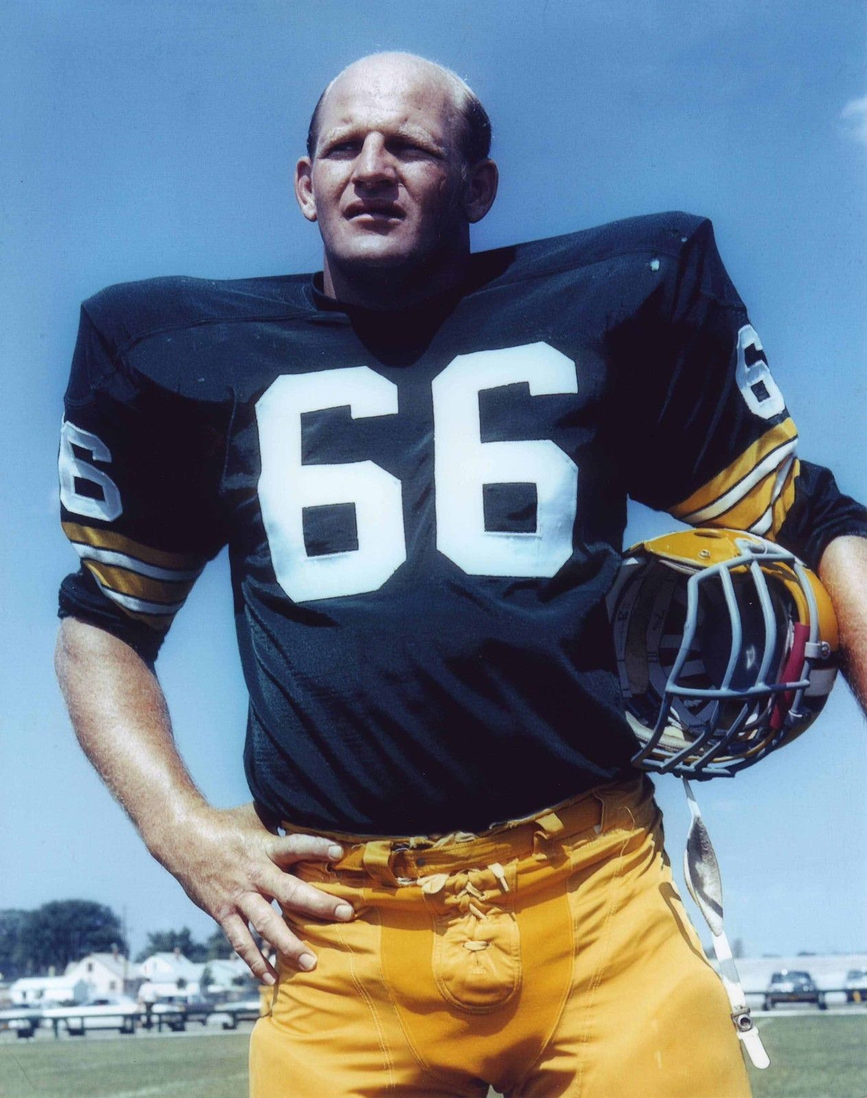 Green Bay Packers' linebacker Ray Nitschke with the team uniform.